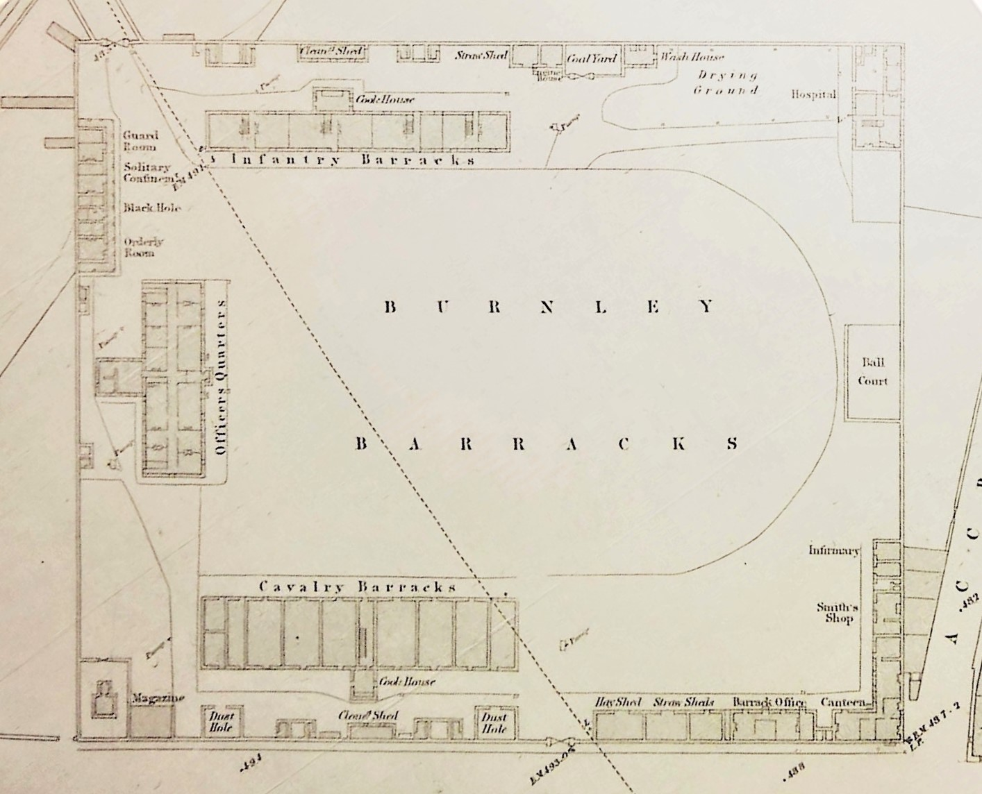 A plan of the Burnley Barracks site in 1851, extracted from an Ordnance Survey map. The image has been rotated, but the dotted line running across the site (actually the Burnley's municipal boundary of the time) and is approximately north / south.